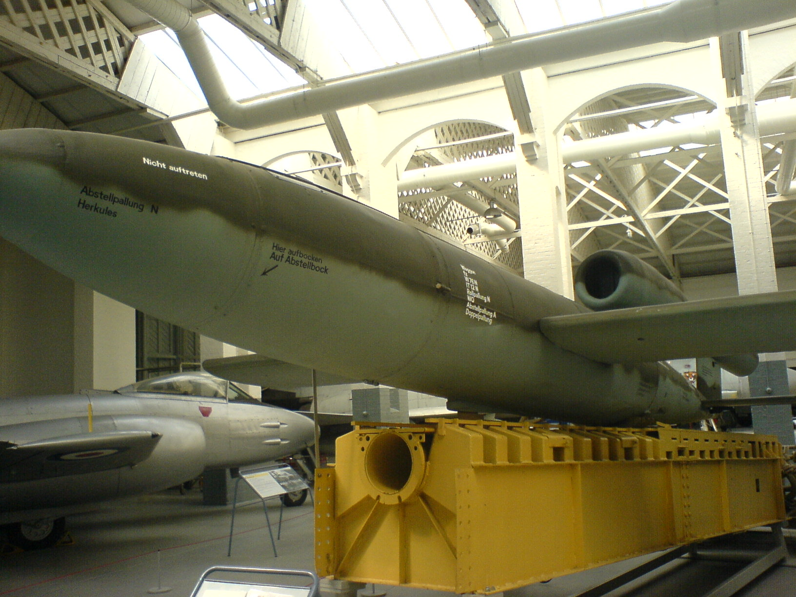 Doodlebug on display at the Imperial War Museum